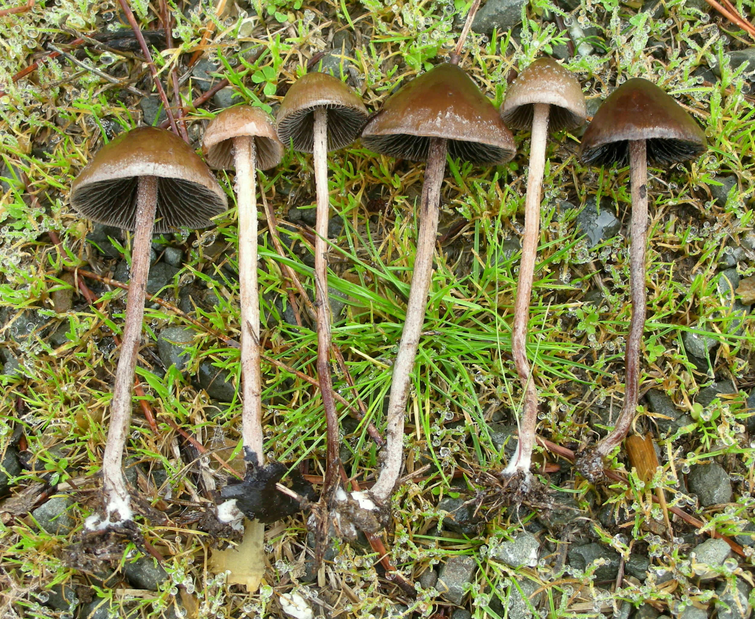 Panaeolus acuminatus (Schaeff.) Quél. Image location: Bay View Trialhead, Point Reyes National Seashore, Marin Co., California, USA Growing on old horse dung. Caps up to 3.0 cm across and slightly hygrophanous. Stipes up to 8.7 cm X .30 cm wide, fairly stiff and thinly hollow. Gills edges whitish in youth and not extremely mottled. Spores blackish. Spores ~ 10.9-13.4(14.8) X 7.9-10.0 microns, lemon shaped with an apical pore. Did not see any Pleurocystidia. Cheilocystidia was ~ 20-30 X 4-5 microns and mostly flexose. Recognized by sight For more information about this, see the observation page at Mushroom Observer.